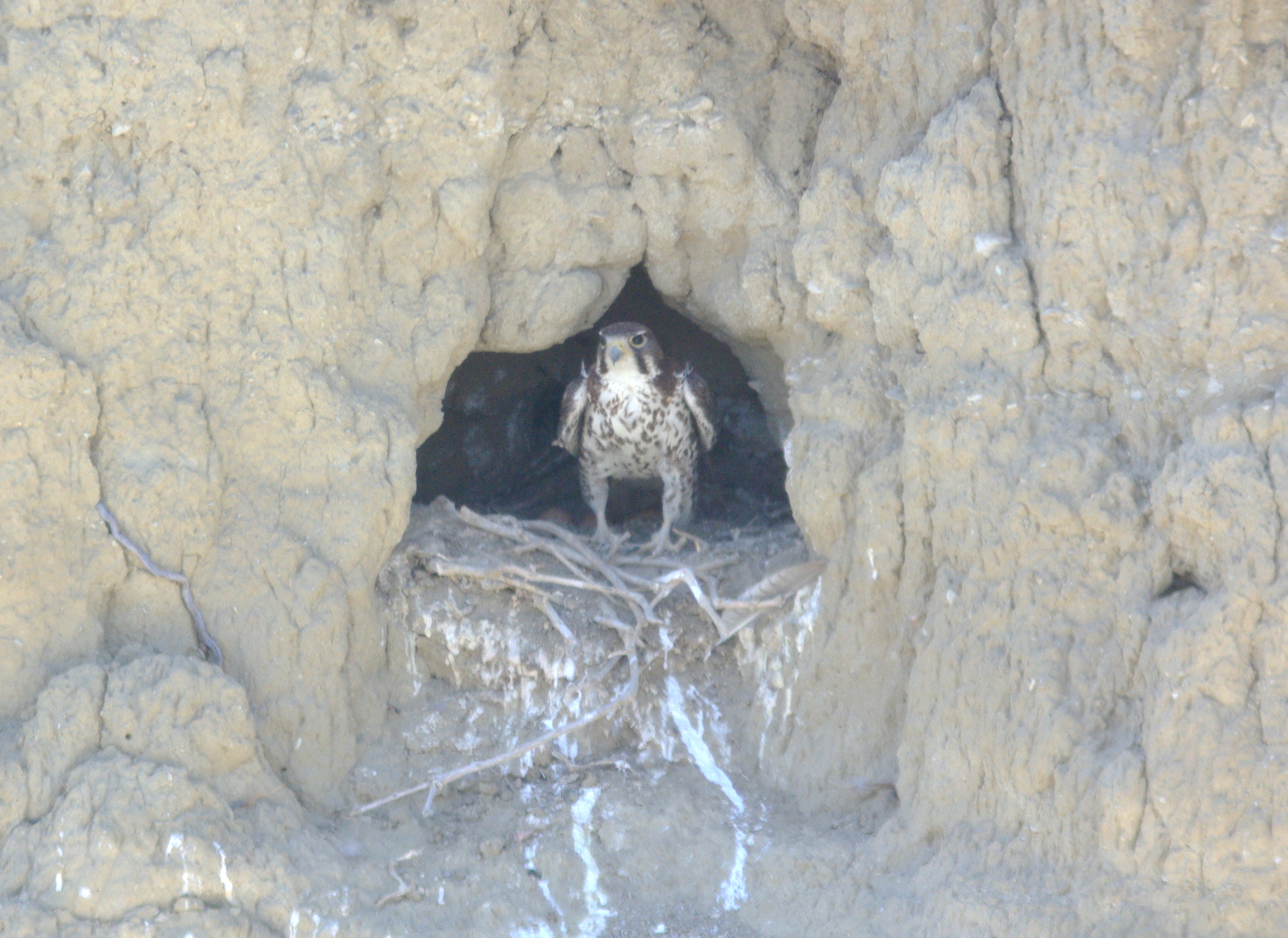 CALIFORNIA - BIRDS of San Luis Obispo Co